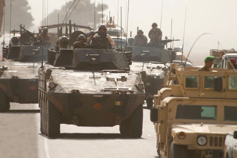 Soldiers of the Italian Army Sassari Mechanized Brigade on patrol in Afghanistan with VBM Freccia.